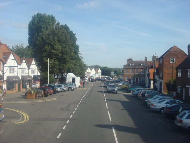 Amersham Broadway